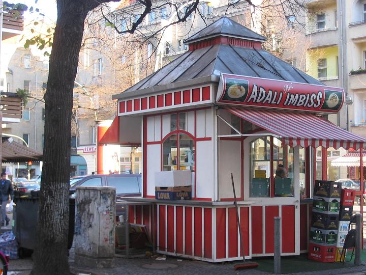 Hermannstreet in Berlin-Neukölln. Corner Warthestraße, turkish takeaway